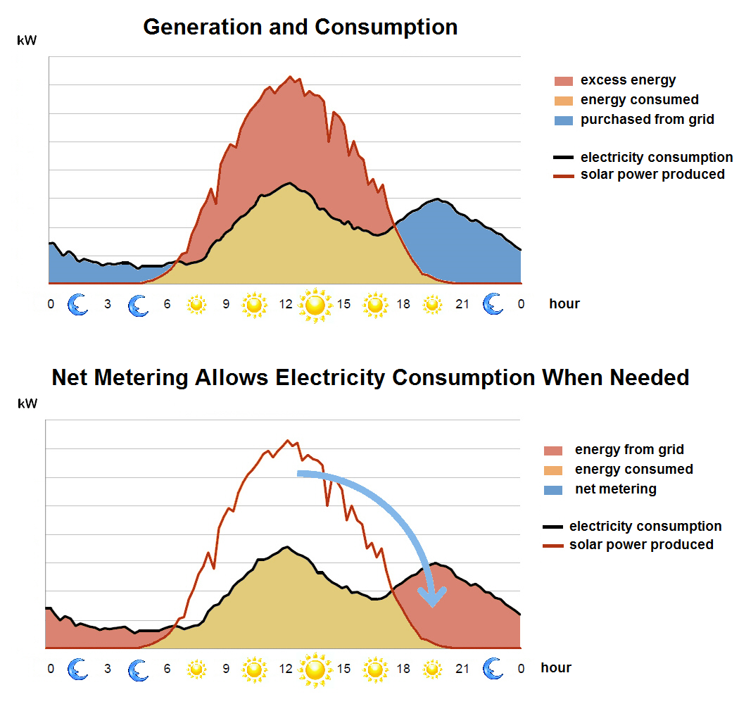 Net metering is used daily to allow solar power generated during the day to be used at night. The meter runs backward on sunny days and runs forward each night. The consumer only pays for the net difference left over each month.